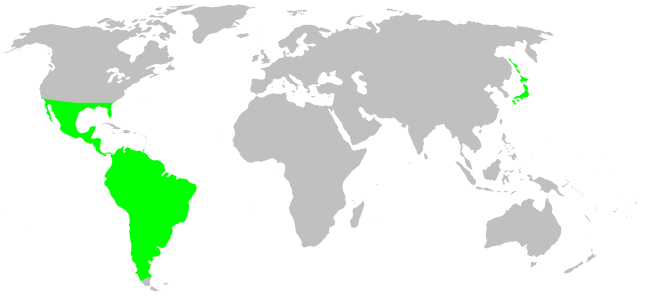 Trechaleidae habitat distribution, drawn after Platnick: World Spider Catalog 7.0. This is not at all a precise rendering of the distribution! If you have better information, please replace this map, or send me the info, and i will redraw it.